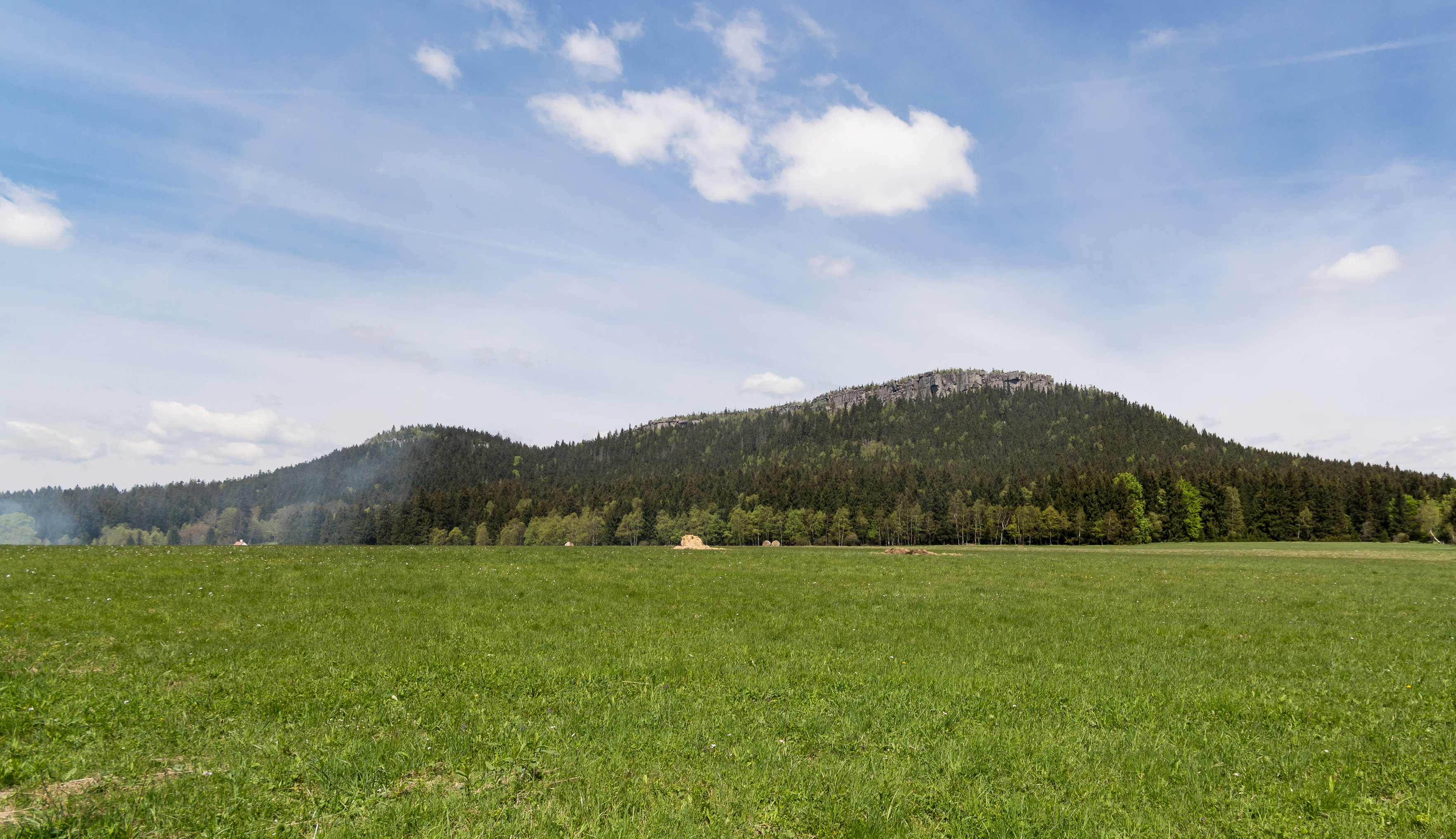 Szczeliniec Wielki, Stołowe Mountains, Sudetes, Poland This is a photography of Natura 2000 protected area with ID PLH020004